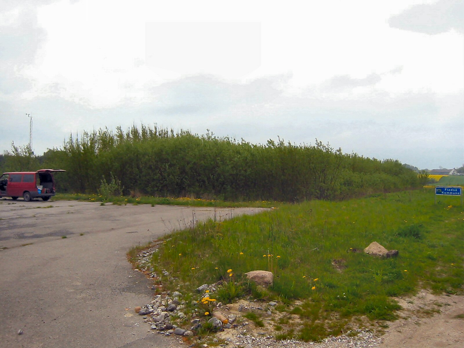 Phytoremediation of a former gas-station in Rønnede, Denmark using different species of Salix.